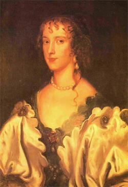 Portrait of Anne Arundel Calvert